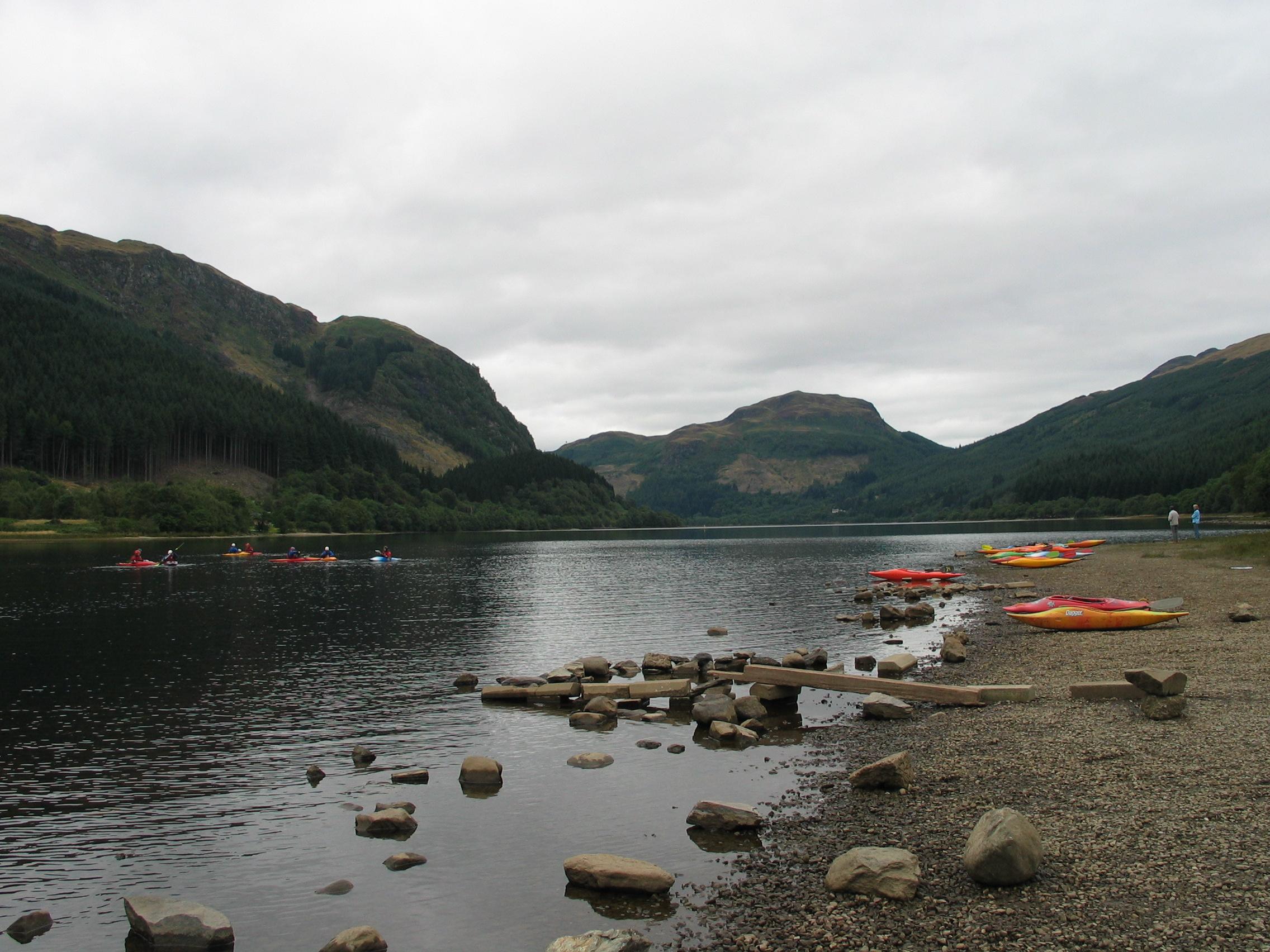 Loch Lubnaig, Stirling, Scotland